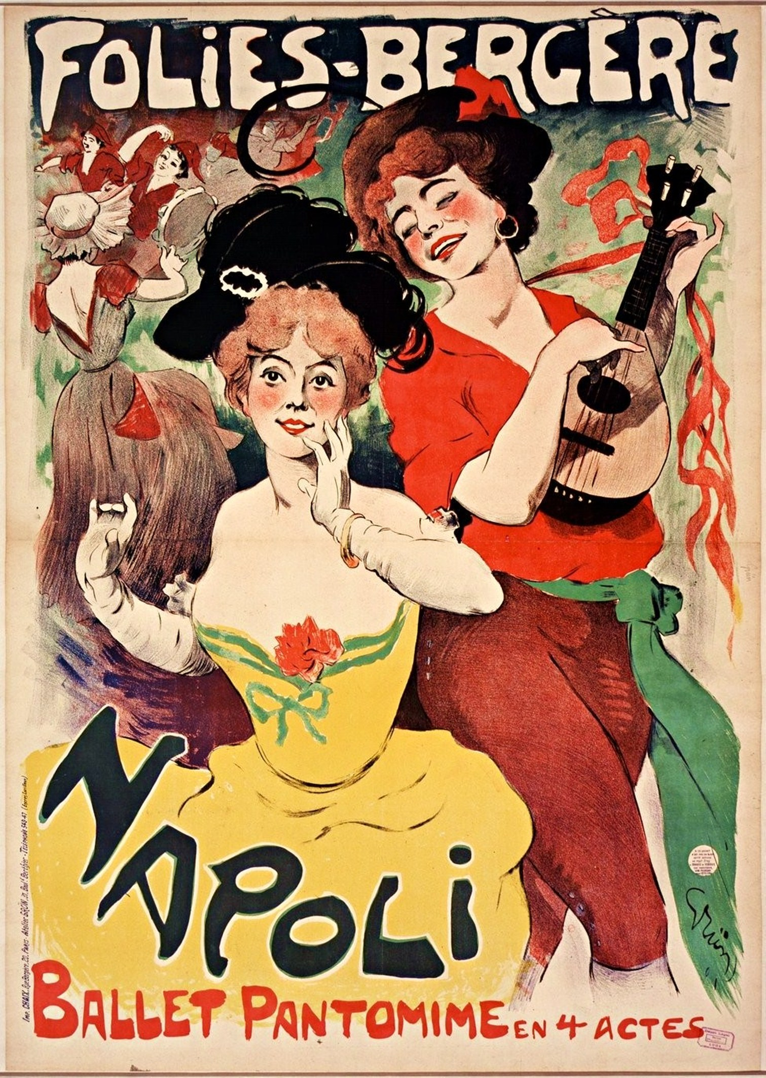 Amélie Diéterle plays the role of La parisienne in Napoli at the Folies Bergère in 1901, a ballet of Paul Milliet on a music by Franco Alfano. Amélie Diéterle is a French actress born in Strasbourg on February 20, 1871 and died in Cannes on January 20, 1941. She was legitimated in Paris in 1892 by Captain Louis Laurent, Knight of the Legion of Honor. Amélie Diéterle married in Vallauris on June 16th, 1930 with André Simon (1877-1965). Amélie Diéterle plays mainly at the Théâtre des Variétés in Paris during the Belle Époque.